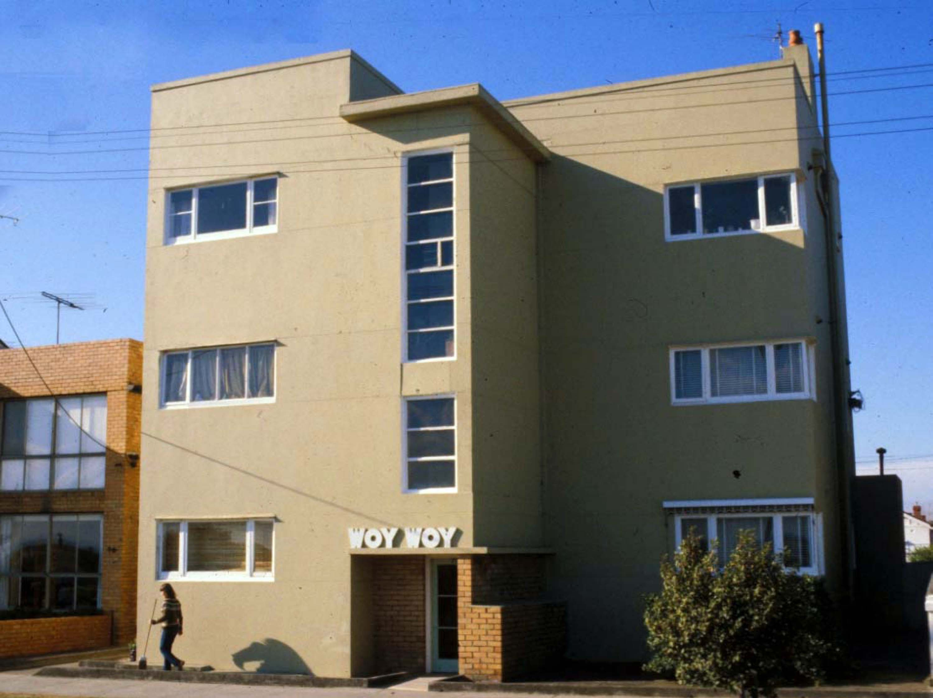 'Woy Woy' flats, 71 Ormond Esplanade, Port Phillip, by Geoffrey Mewton, of Mewton & Grounds, 1936. Scan of 1982 slide.